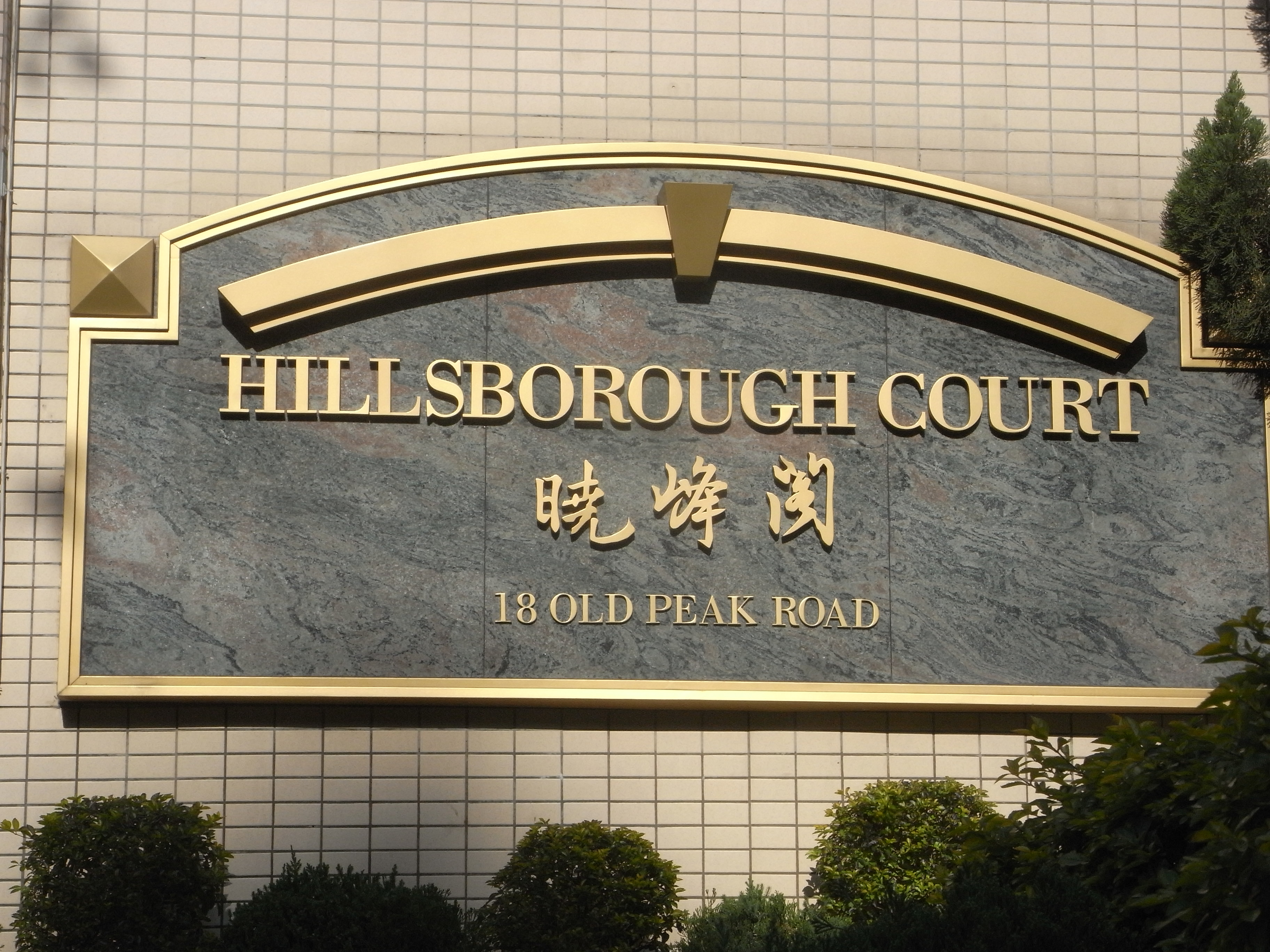 香港島半山區舊山頂道 - 曉峰閣